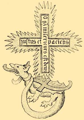 Emblem of the Order of the Dragon, from Conrad Grünenberg's armorial (1483)